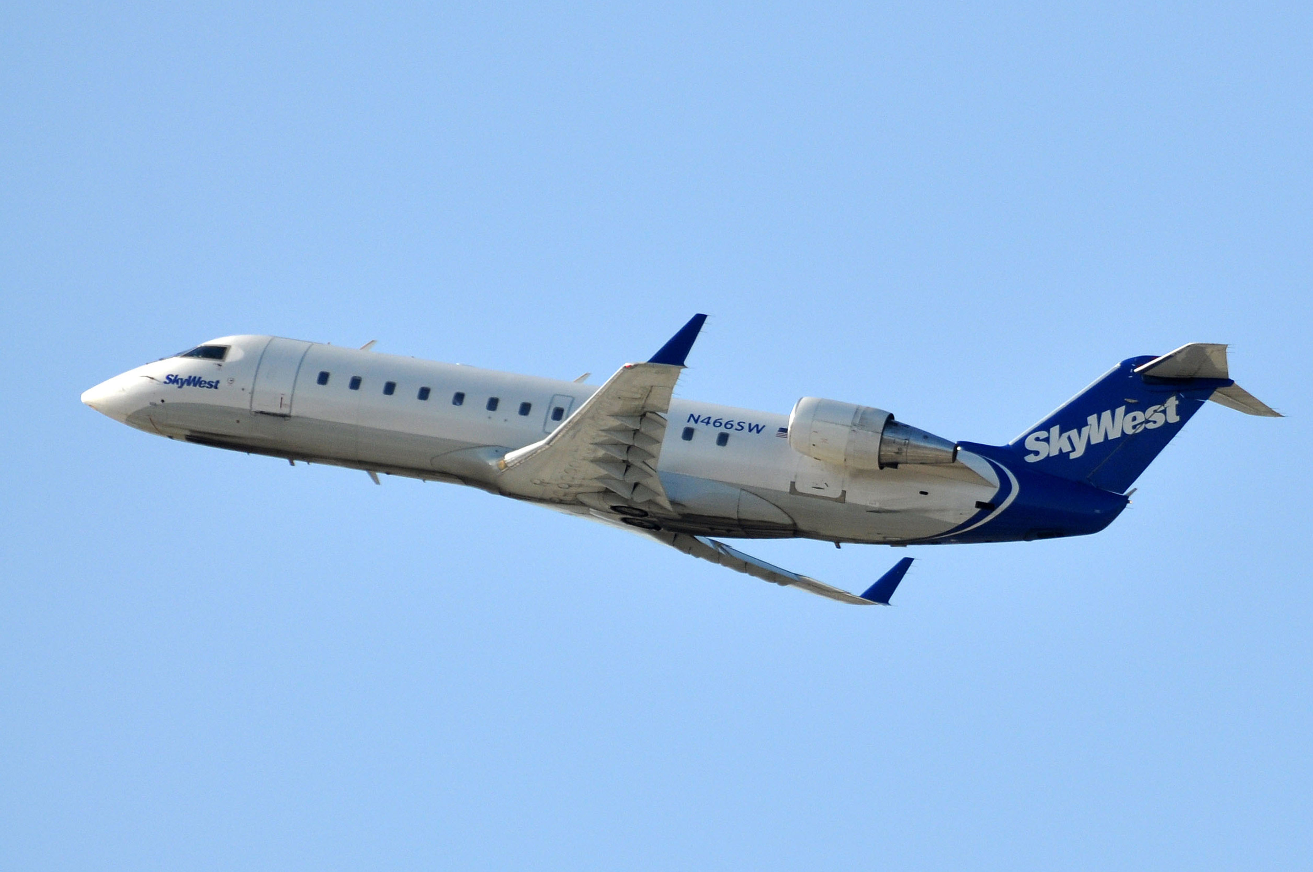 MSN 7856 CRJ-200ER SKYWEST USA LAX AIRPORT